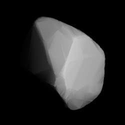 3D convex shape model of 1768 Appenzella, computed using light curve inversion techniques. J. Hanuš, J. Ďurech, M. Brož, B. D. Warner (June 2011). "A study of asteroid pole-latitude distribution based on an extended set of shape models derived by the lightcurve inversion method". Astronomy and Astrophysics 530: A134. ISSN 0004-6361. arXiv